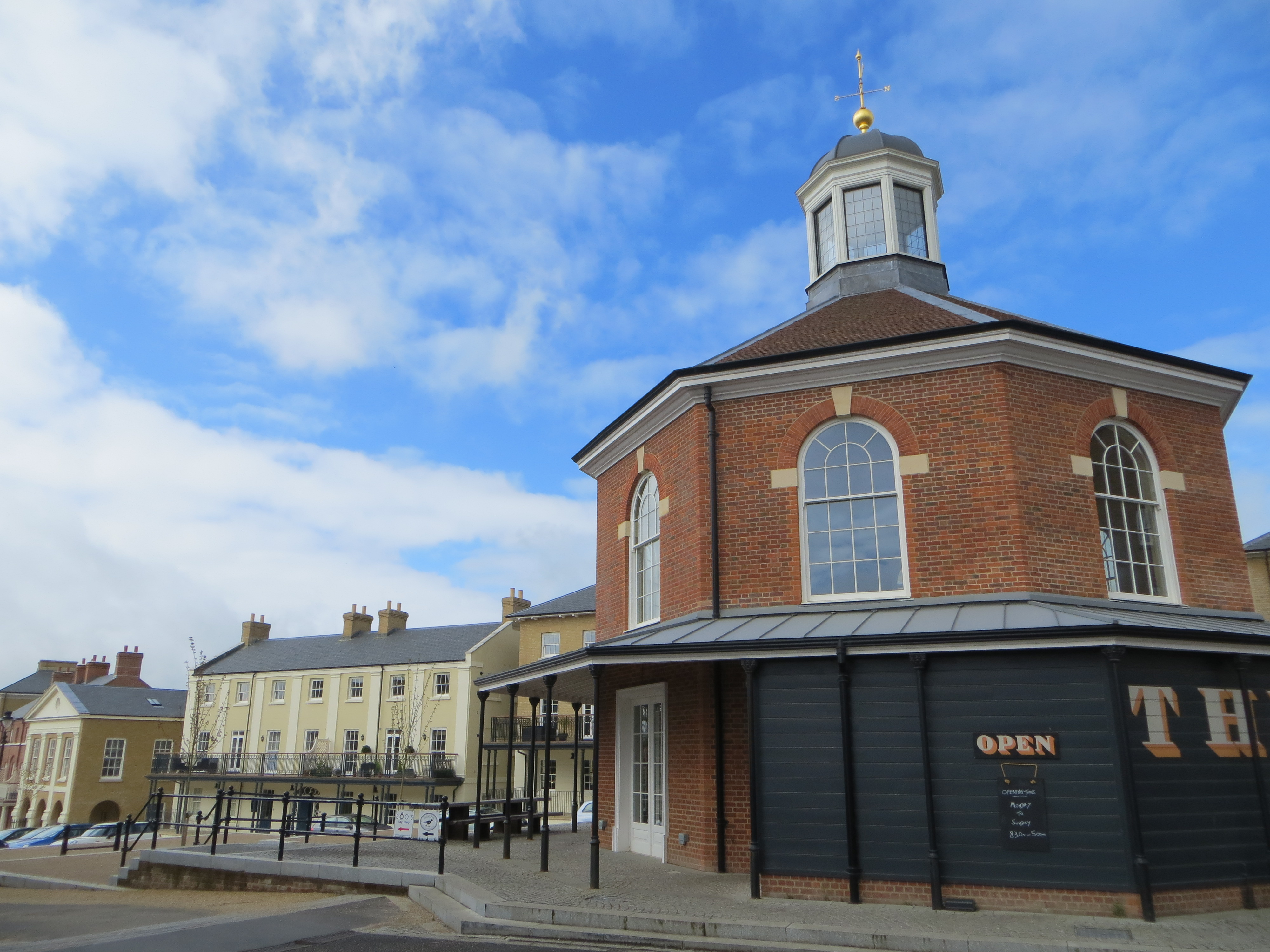 Poundbury